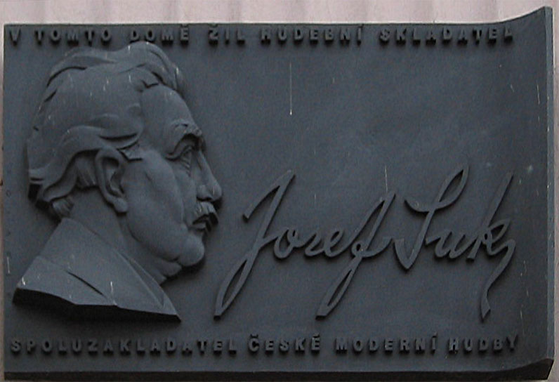 Memorial marker of Josef Suk on a house in Prague’s Trojická street.